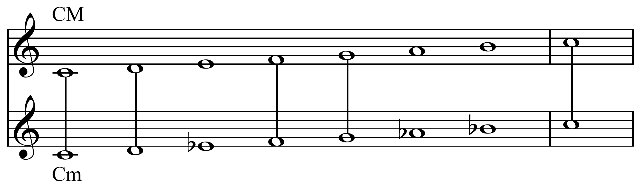 Comparison of C major and C minor scales. The notes common to both scales are marked with vertical lines.